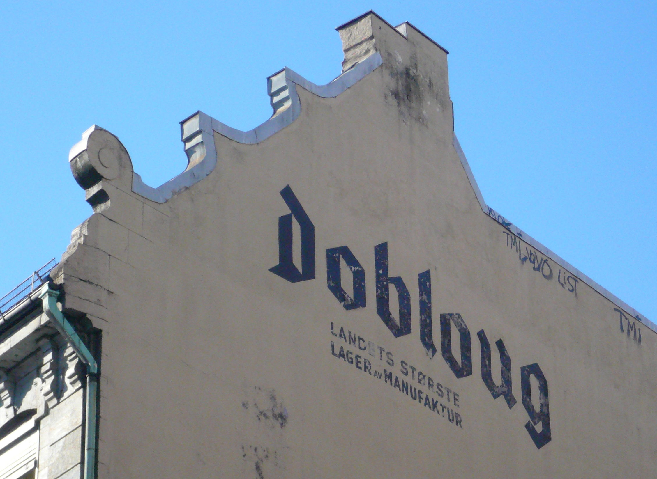 Commercial painted on the wall of the departmentstore Doblouggården (1901), Oslo, Norway.